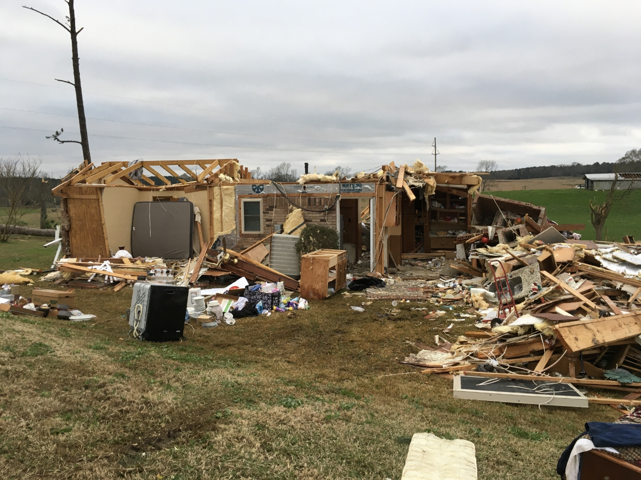 A house destroyed by an EF3 tornado near Mize, Mississippi on December 16, 2019